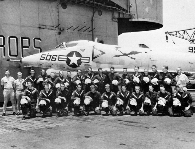 Pilots of U.S. Navy from Attack Squadron VA-36 Roadrunners with one of their Douglas A-4C Skyhawk aircraft on deck of the aircraft carrier USS Intrepid (CVS-11) off Vietnam. VA-36 was assigned to Carrier Air Wing 10 (CVW-10) aboard the Intrepid for a deployment to Vietnam from 4 June 1968 to 8 February 1969.